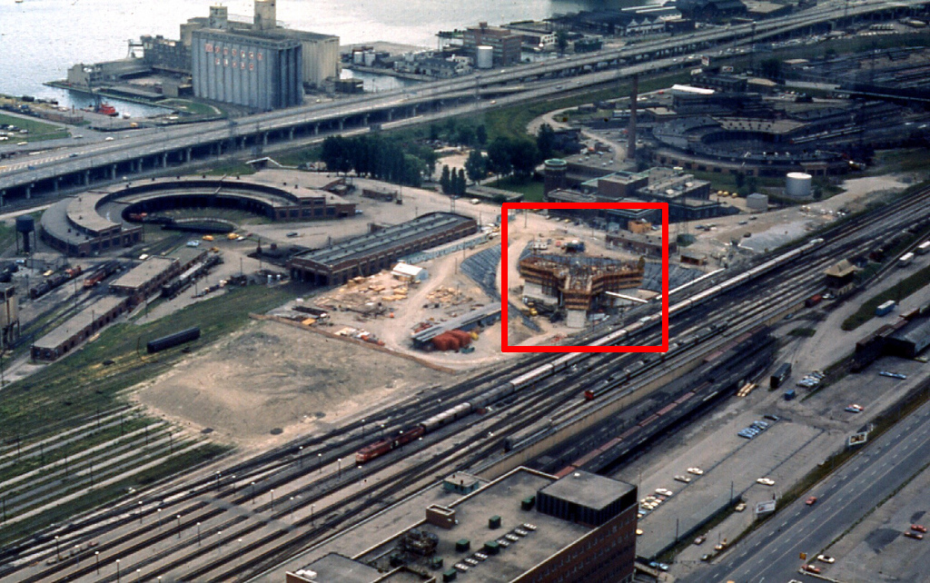 Constructing the base of CN Tower, Toronto